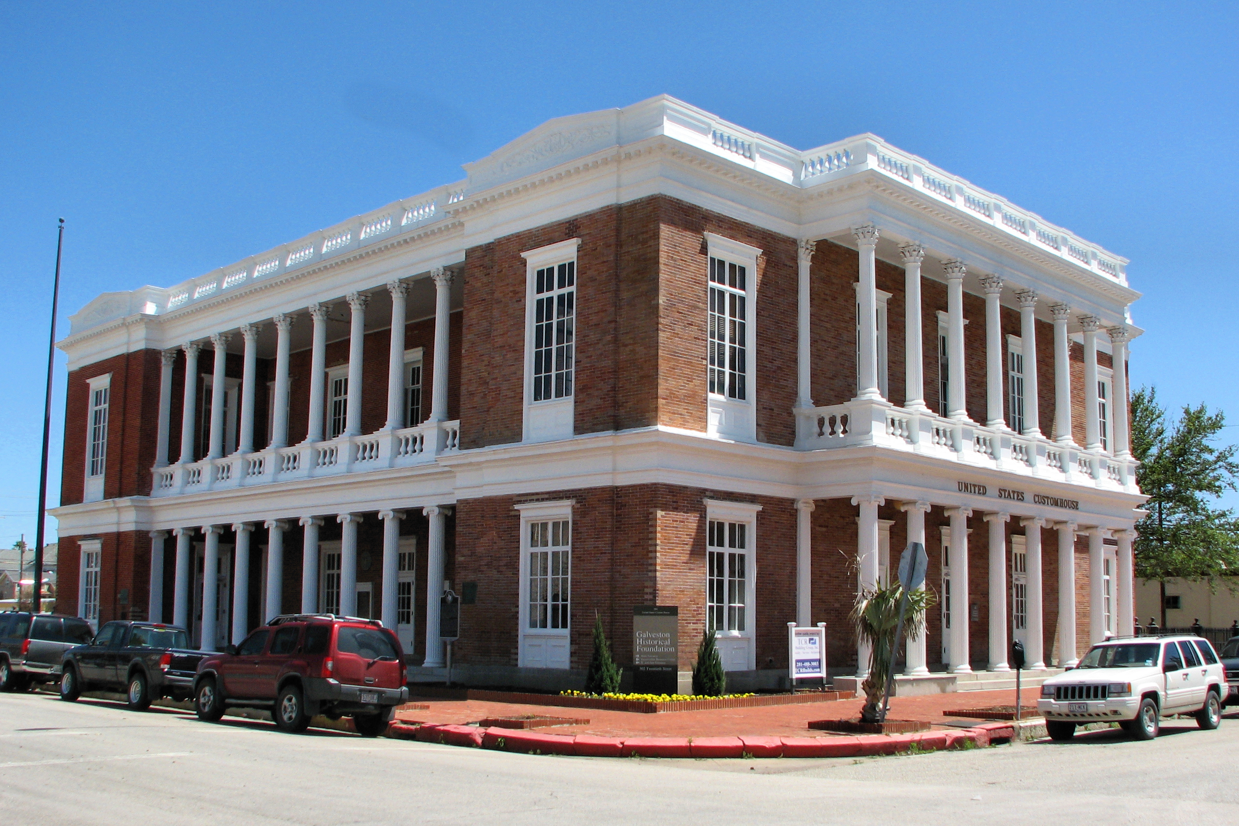 Photo of the 1861 Customs building and Court House in Galveston, Texas